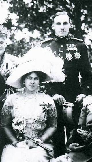 Princess Beatrice of Saxe-Coburg and Gotha, Princess of Edinburgh with Alfonso d'Orleans-Bourbon